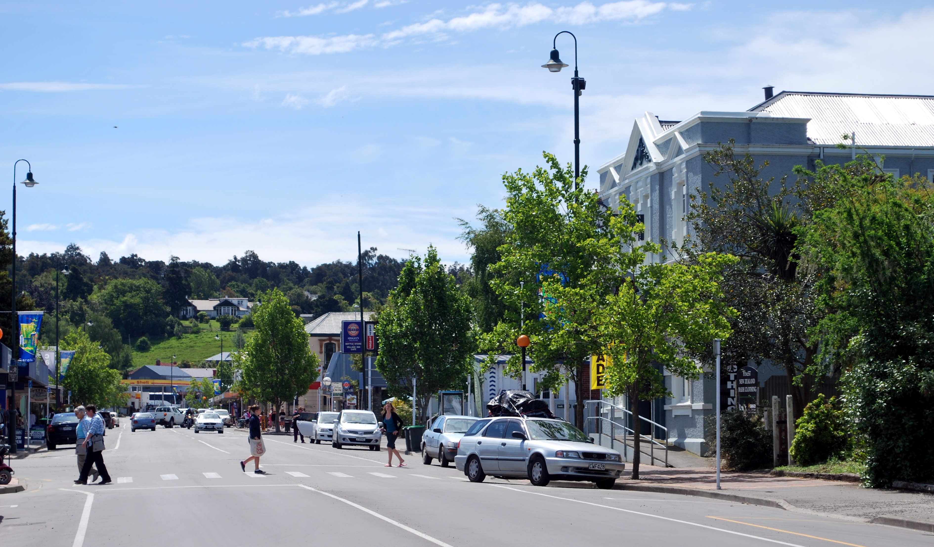 Talbot St (New Zealand State Highway 79) in Geraldine, New Zealand